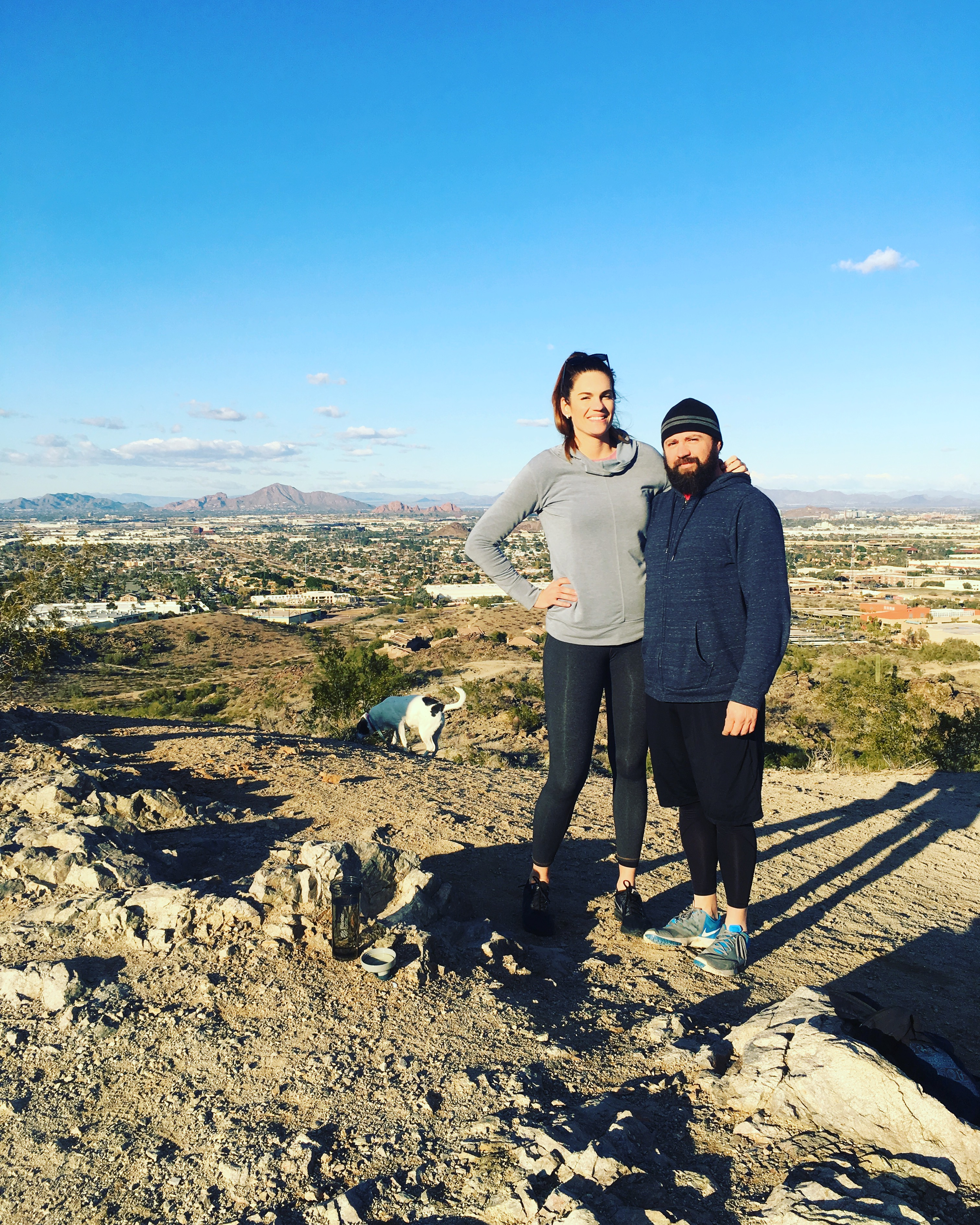 Lindsay on a hike with her long time boyfriend and her dog Fiona